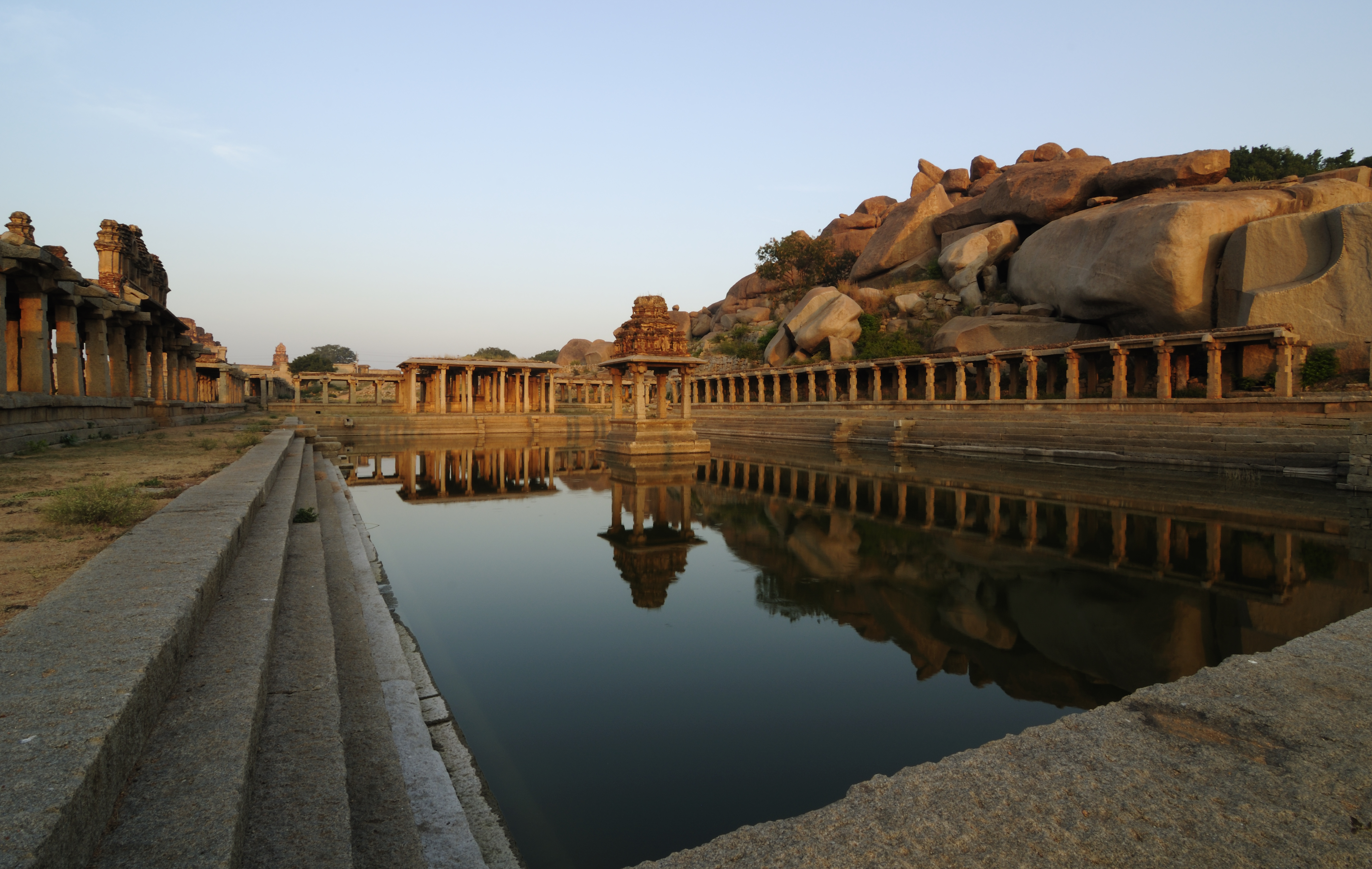 This is the sacred pushkarani or tank located on the eastern side of Krishna temple in Hampi, India. It's a fine example of water tank design of Vijayanagar time. The photograph captures the place in early morning light. Note: This photograph uses Adobe RGB color space. It is recommended that the photograph be viewed in a browser/image viewer that supports non-sRGB color space. Safari and Firefox include non-sRGB color space support by default.